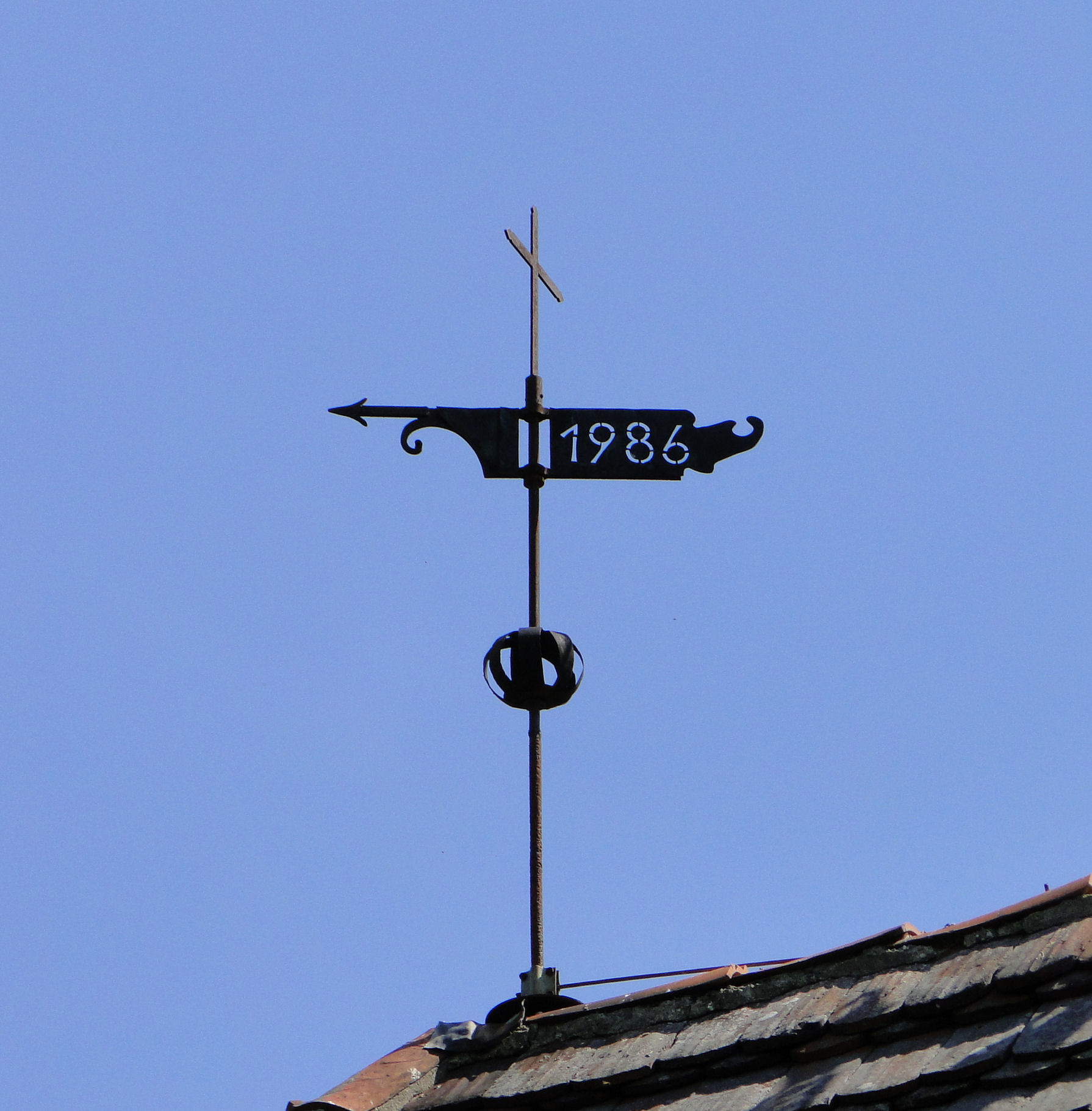 Weather vane with year 1986 at church tower in Alt Sammit, district Güstrow, Mecklenburg-Vorpommern, Germany